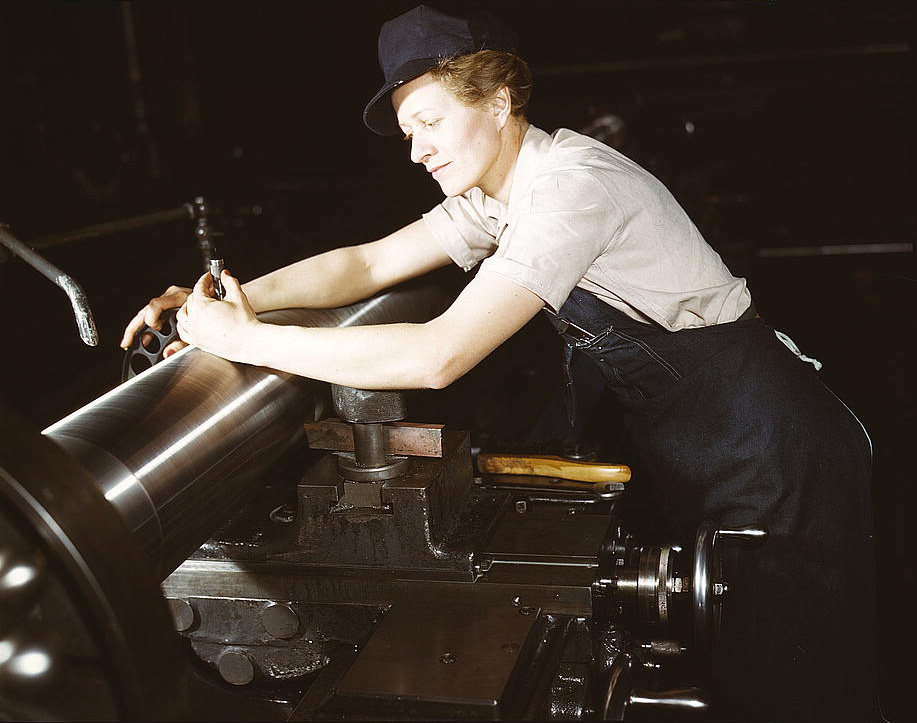 Ex-stage orchestra musician, checking an M7 gun with gage, after turning out on a gun lathe. Her two brothers and husband are in the service.